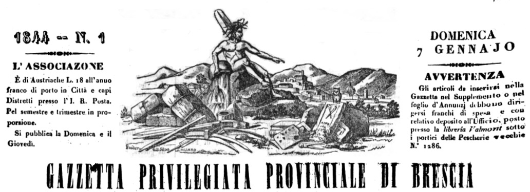 Nameplate of «Gazzetta privilegiata provinciale di Brescia» of 7st January 1844. «Gazzetta privilegiata provinciale di Brescia» was the name of «Giornale della Provincia bresciana» from 1844 to 1852.